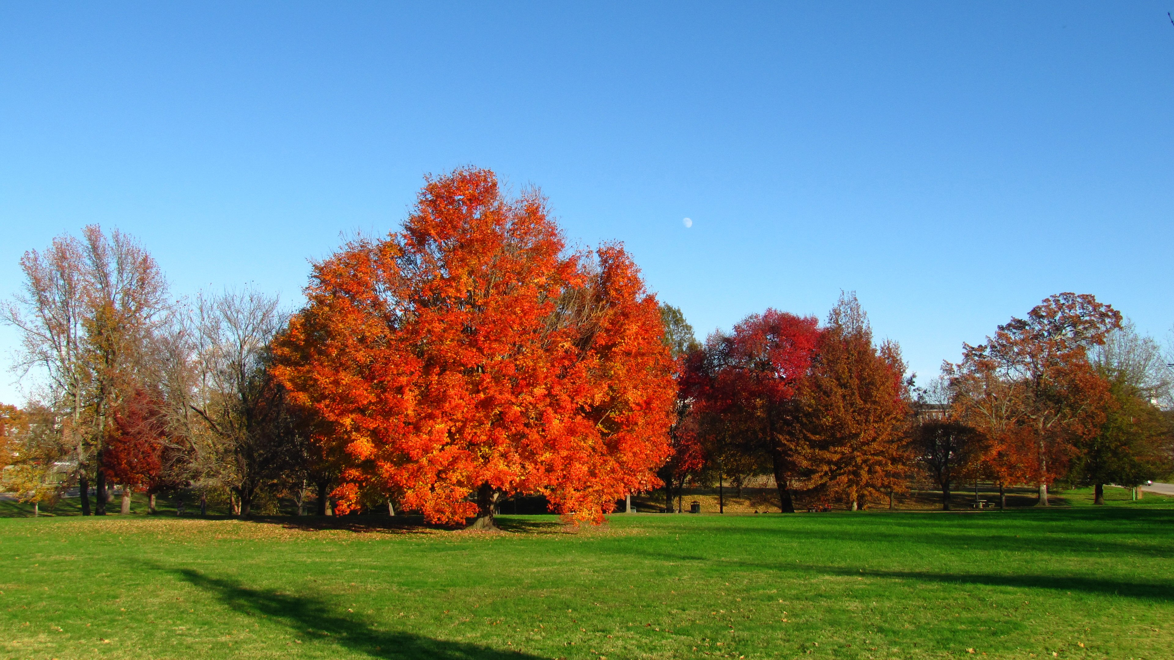 Sherlock Park at Tennessee Technological University in Cookeville, Tennessee, United States, with Fall foliage.